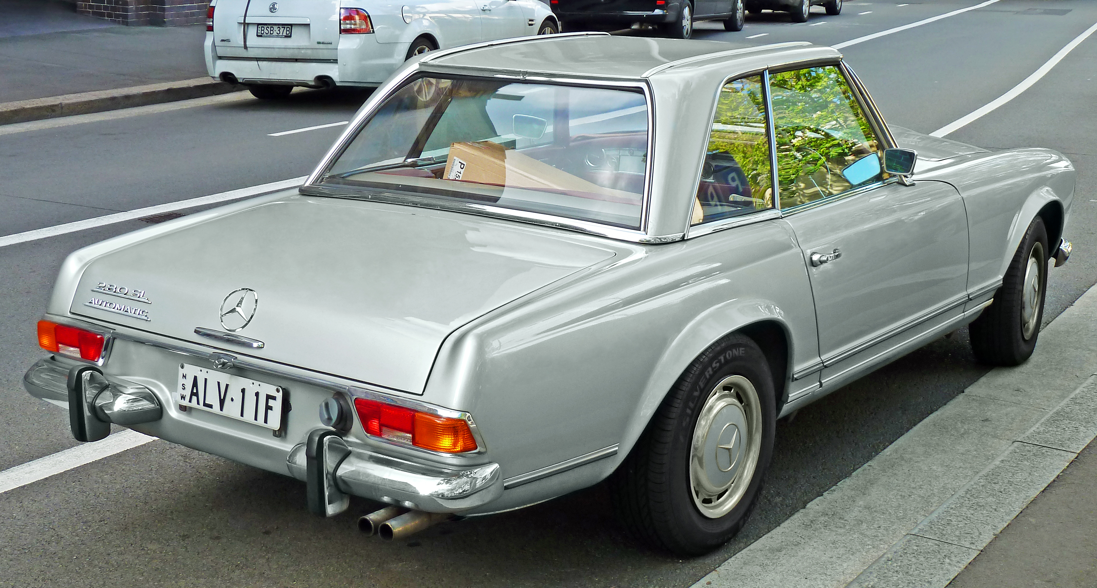 1969 Mercedes-Benz 280 SL (W 113) roadster. Photographed in Dawes Point, New South Wales, Australia.